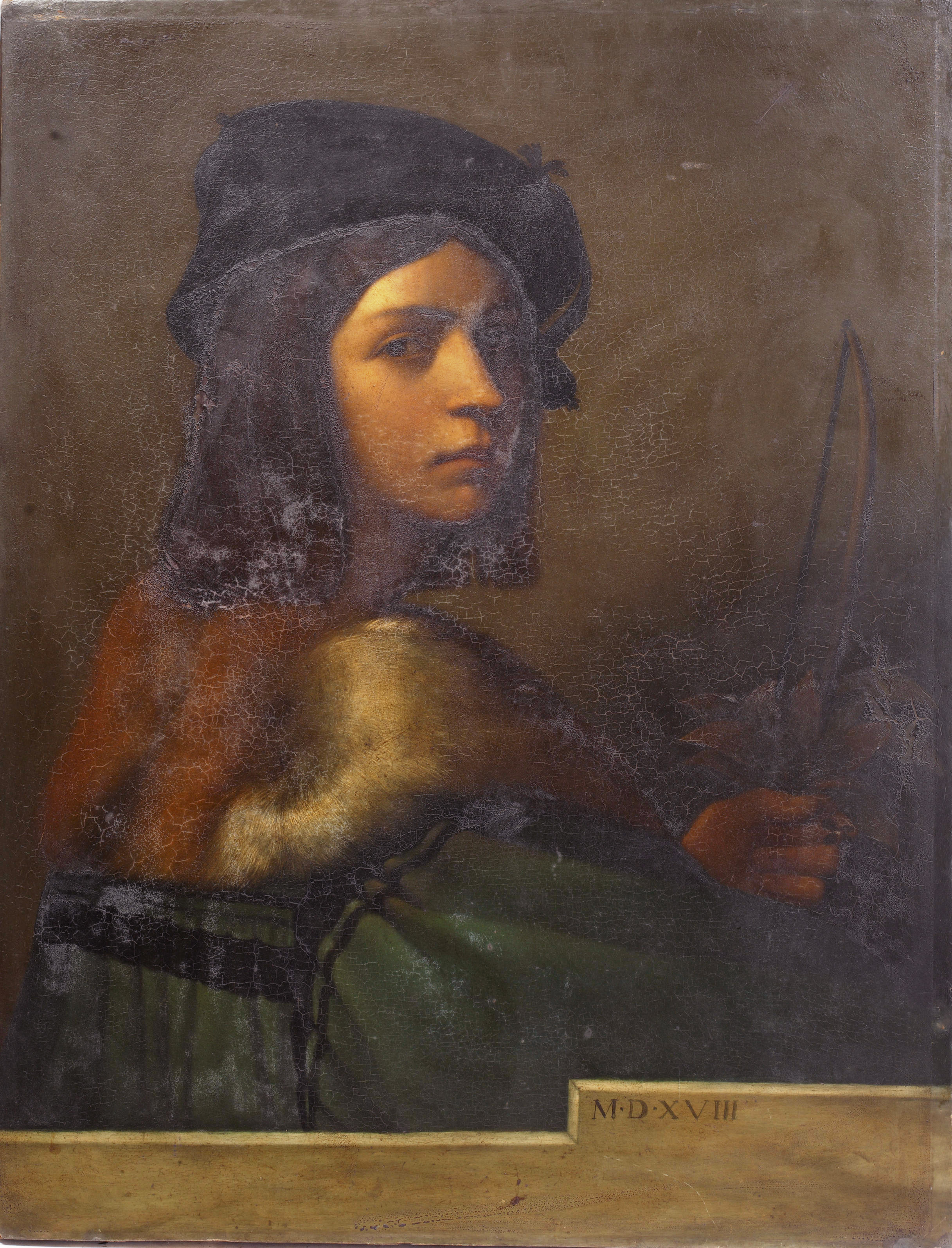 Sebastiano del Piombo, The Violinist, sometimes claimed to be a self-portrait, which is unlikely. oil on panel 69 x 53 cm